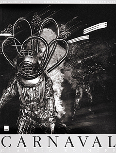 Livro Carnaval